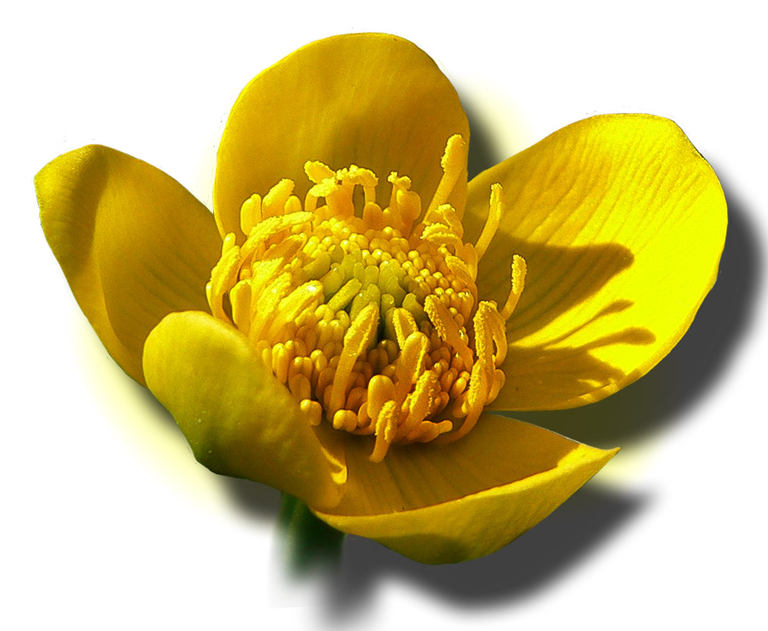 Caltha palustris